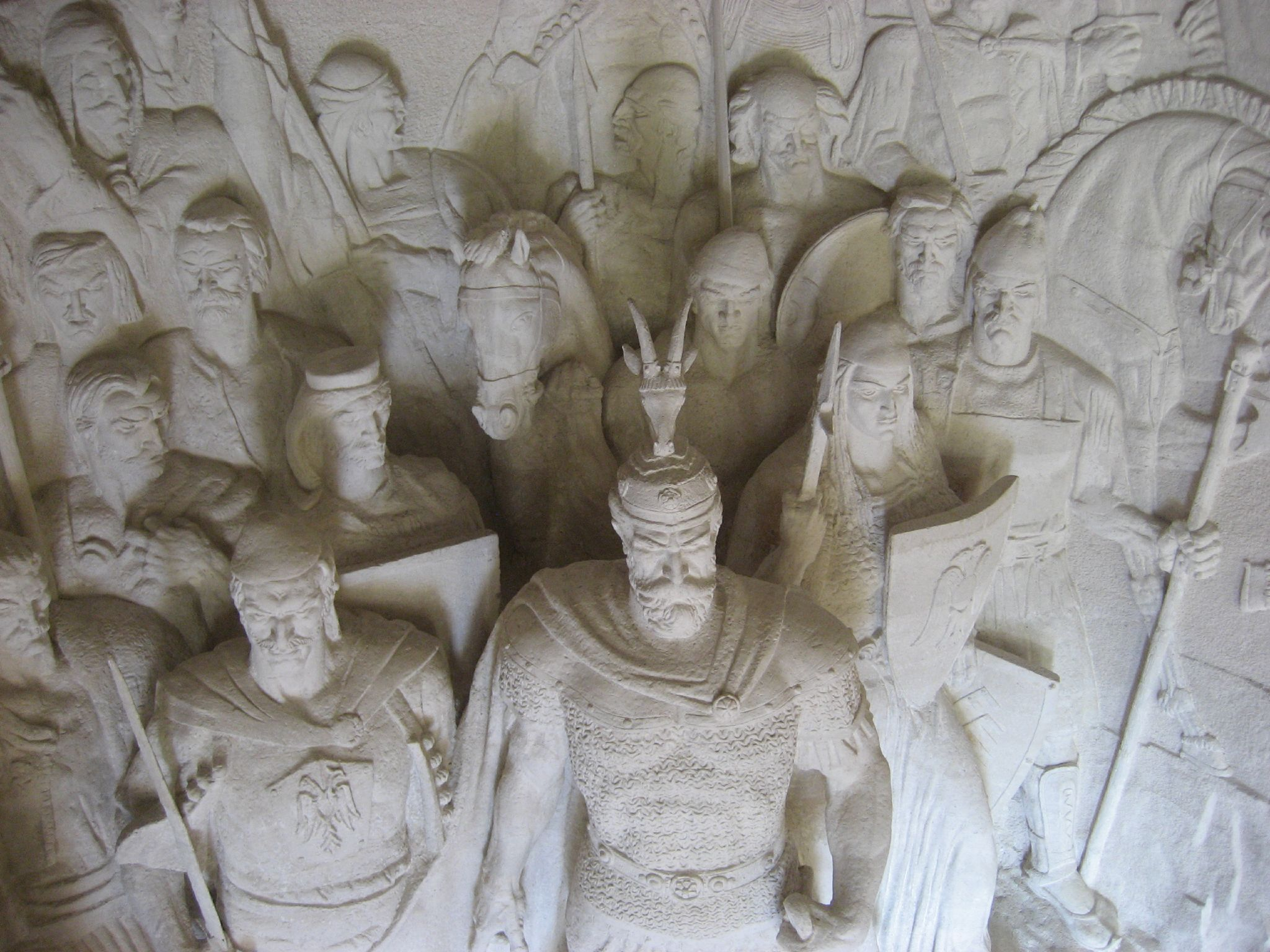 Skanderbeg in Krujë